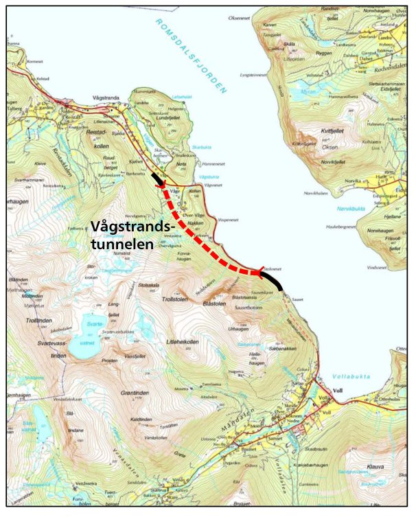 Map of Vågstrand tunnel plans, road E136, Rauma municipality, Norway. Map produced by Norwegian Public Roads Administration.